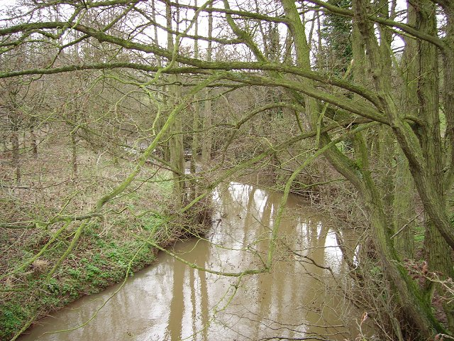 Ledwyche. The Ledwyche Brook. Looking downstream Once featured in a geography O level question - as a problem solving question. It joins the Teme at a funny angle, as the Teme once flowed in the opposite direction. The Ledwyche Brook drains the west side of the Clee Hills.